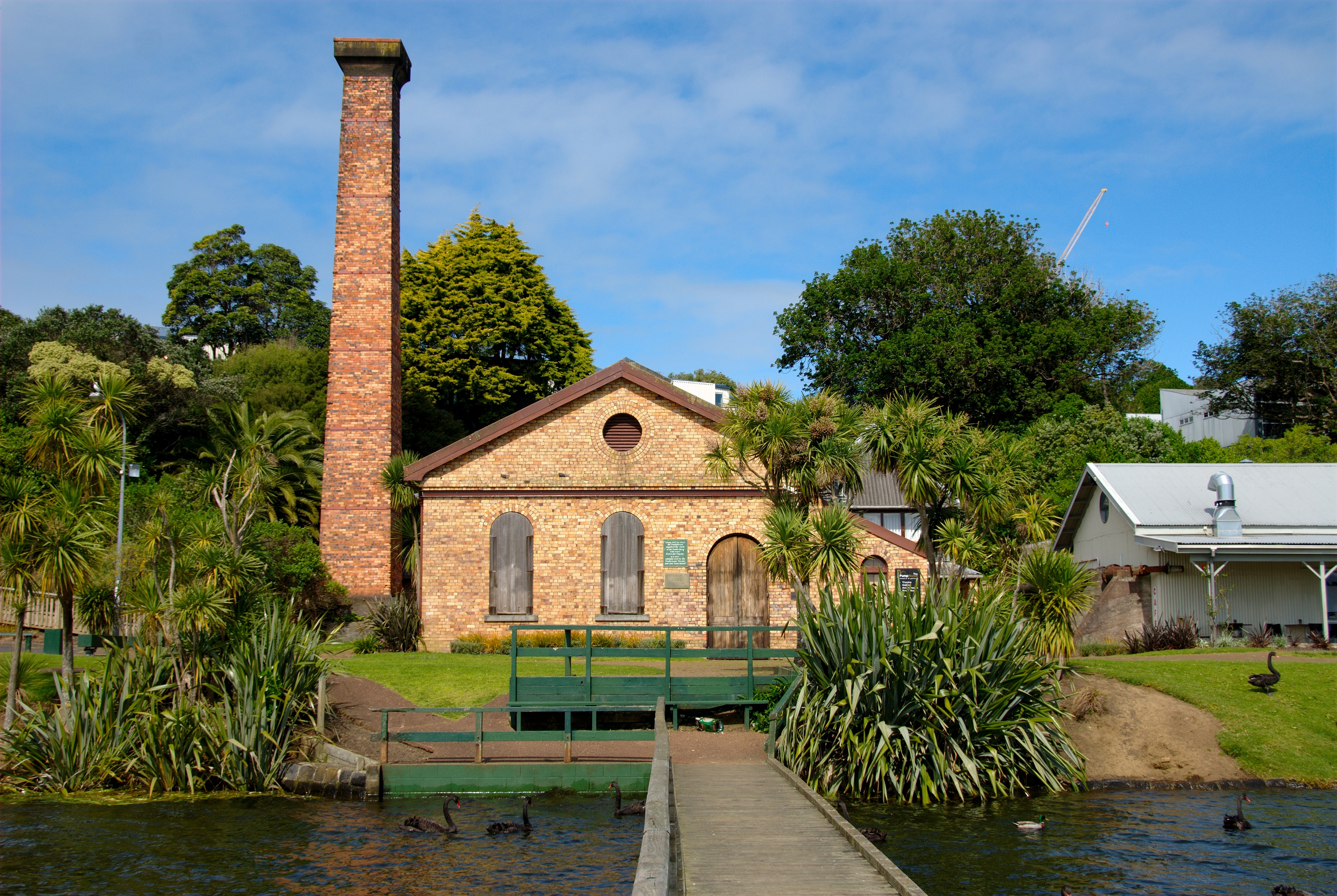 The old pumphouse at Lake Pupuke, Auckland, New Zealand. New Zealand Historic Places Trust Register number: 694.